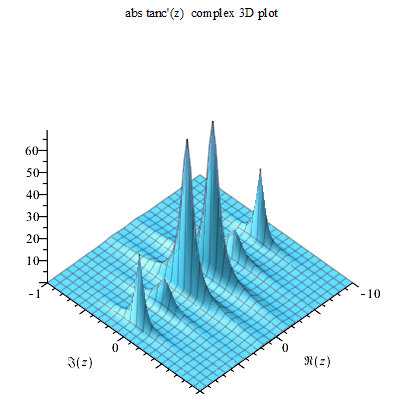 Tanc'(z) abs complex 3D plot